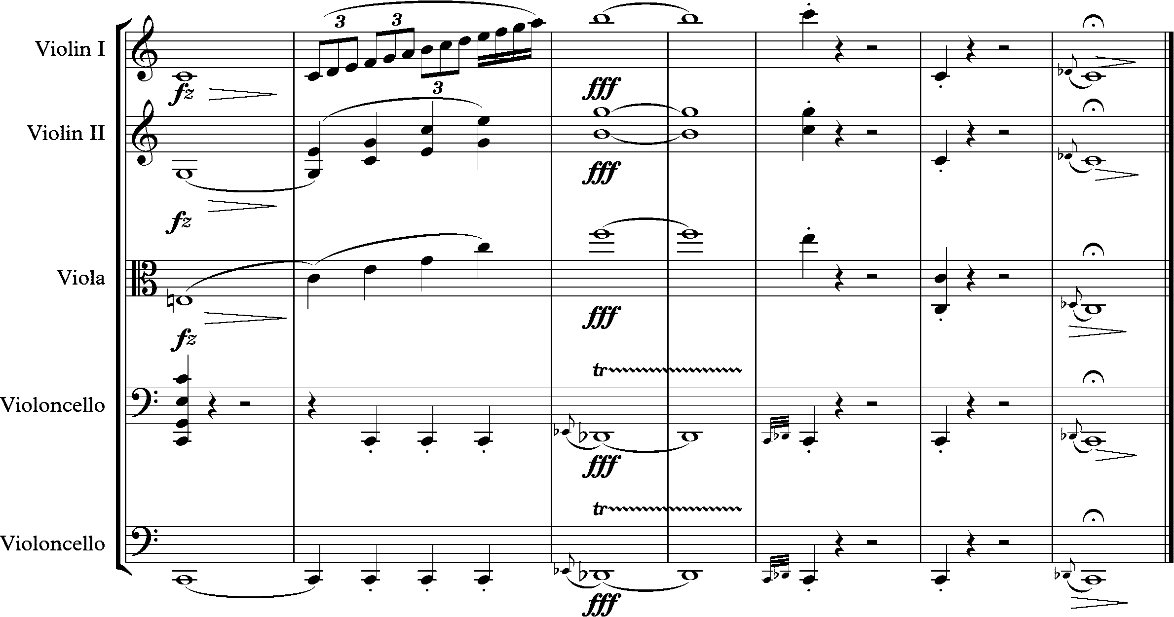 Schubert, Quintet in C, final bars.